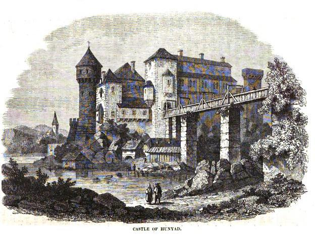 Corvin Castle (drawing from the middle of the 19th century)